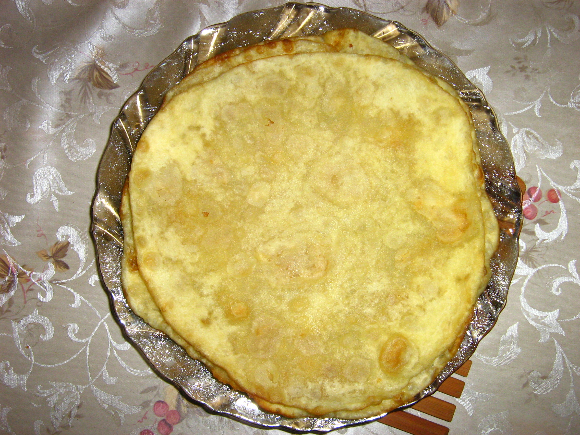 Shelpek, a dish of cuisine of Kazakhstan